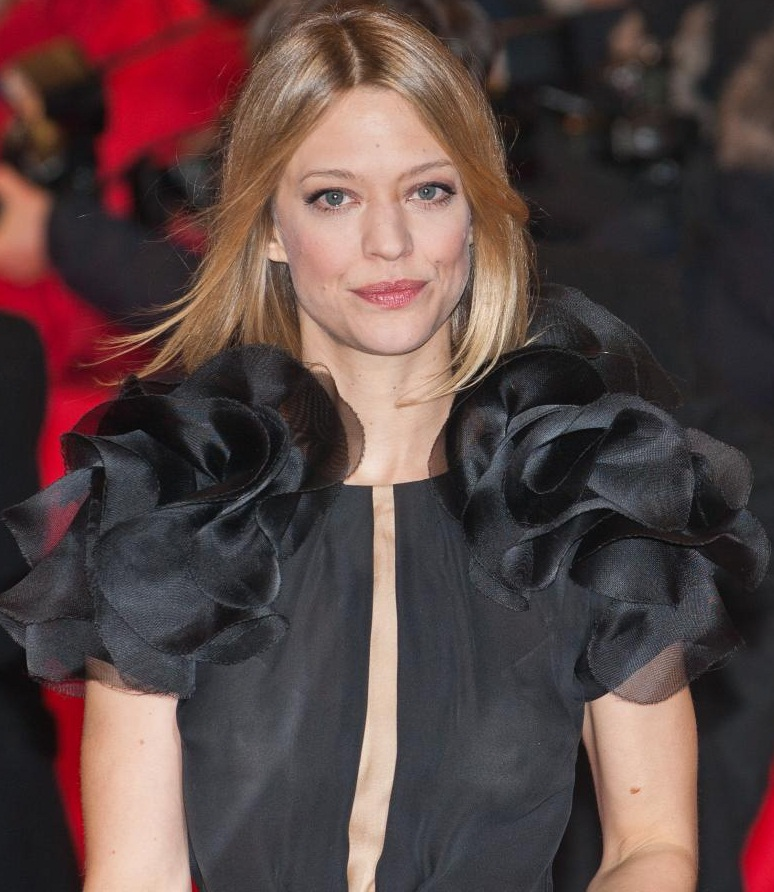 German actress Heike Makatsch, Opening of the 62nd Berlin International Film Festival.